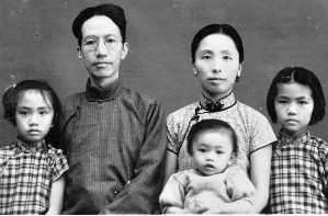 Chen Yinke(3 July 1890 - 7 October 1969)was a sinologist and a fellow of Academia Sinica.1939 in Hong Kong.